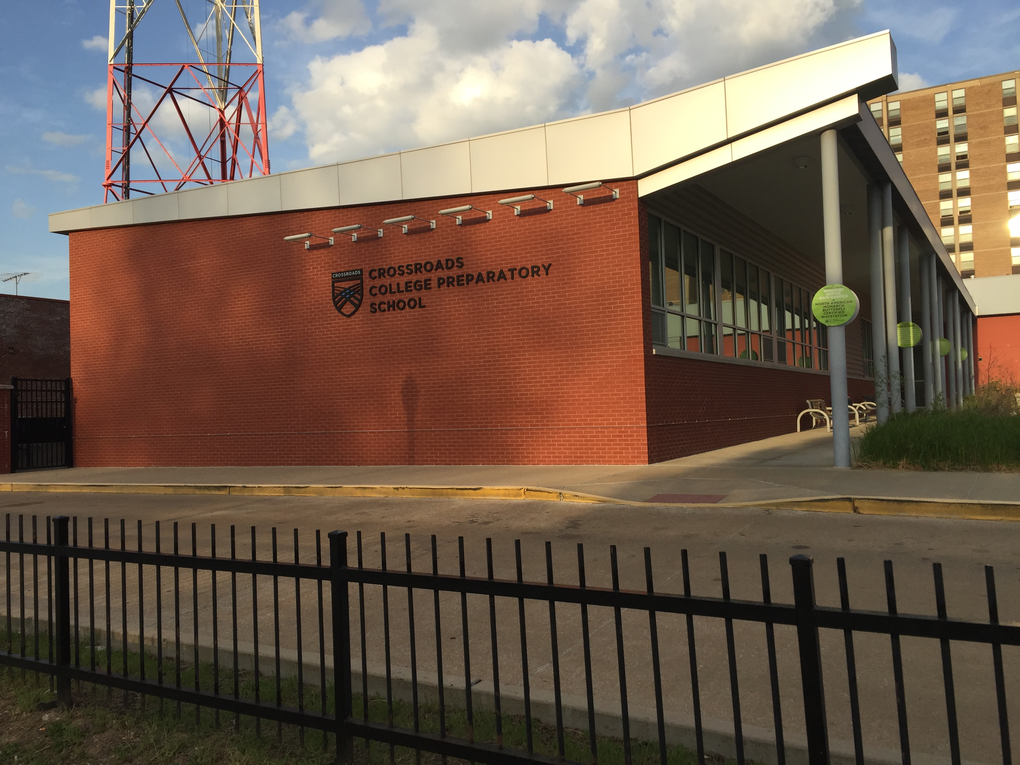 Crossroads College Preparatory School, Saint Louis, Missouri